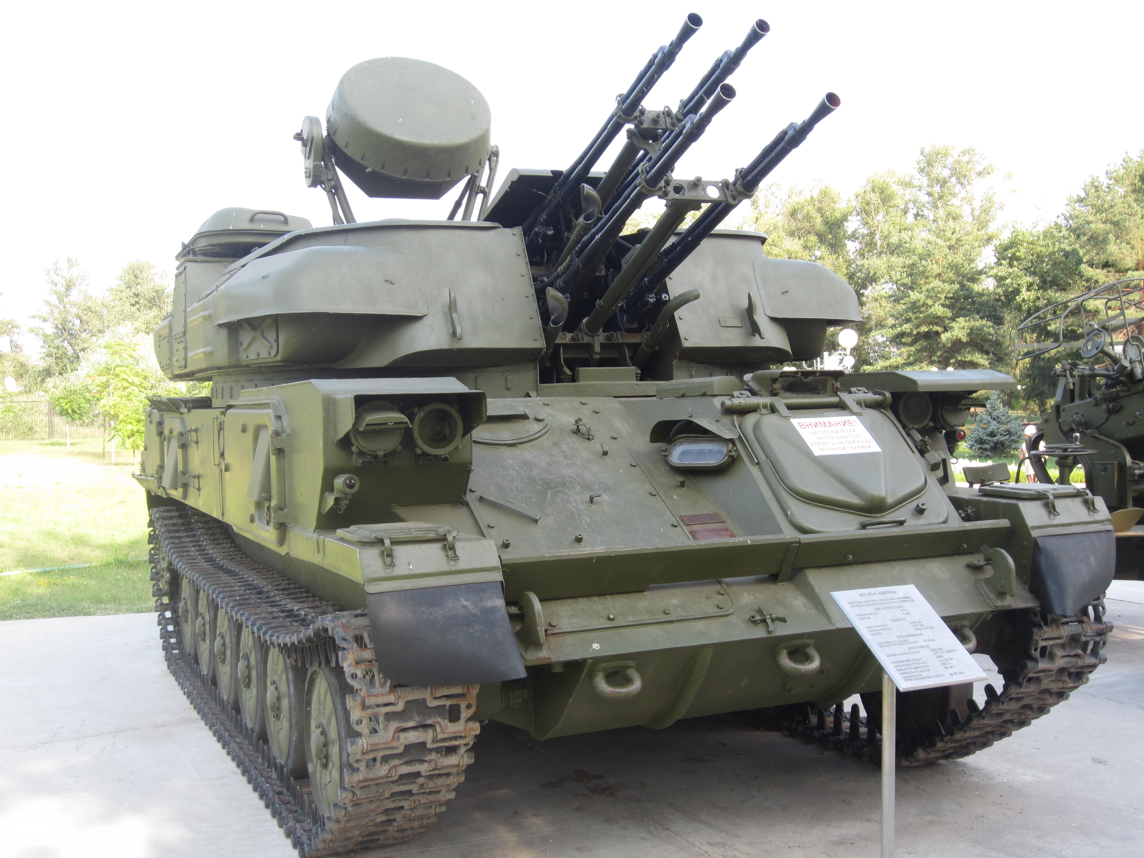 ZSU-23-4 «Shilka». Installed in Victory Park in Enerhodar.